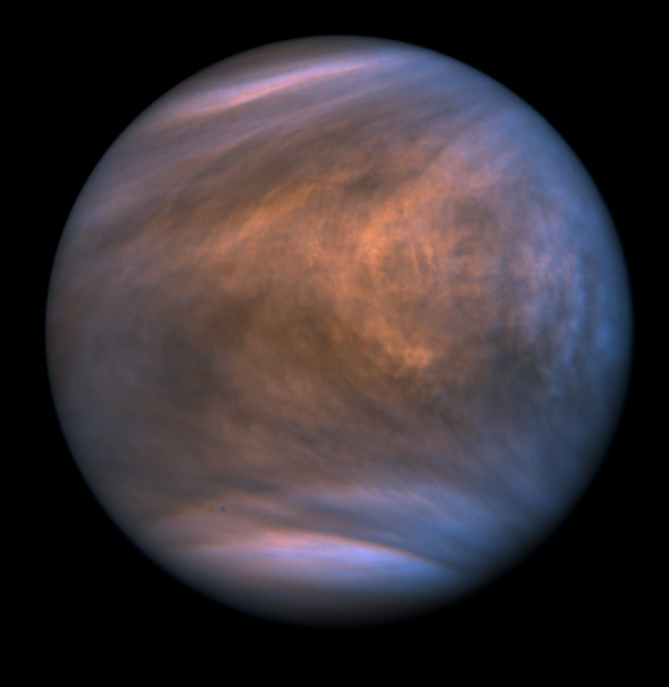 This is an image of planet Venus taken with the AKATSUKI Ultraviolet Imager (UVI). "UVI is an ultraviolet imager that is able to capture images with 365-nm wavelength and 283-nm wavelength to map SO2 and unknown absorber, respectively." Here 283 nm is blue and 365 nm is orange.The image was taken on 2018-11-27 ~03:05RIGHTS, CREDITS, LICENSES for the original data